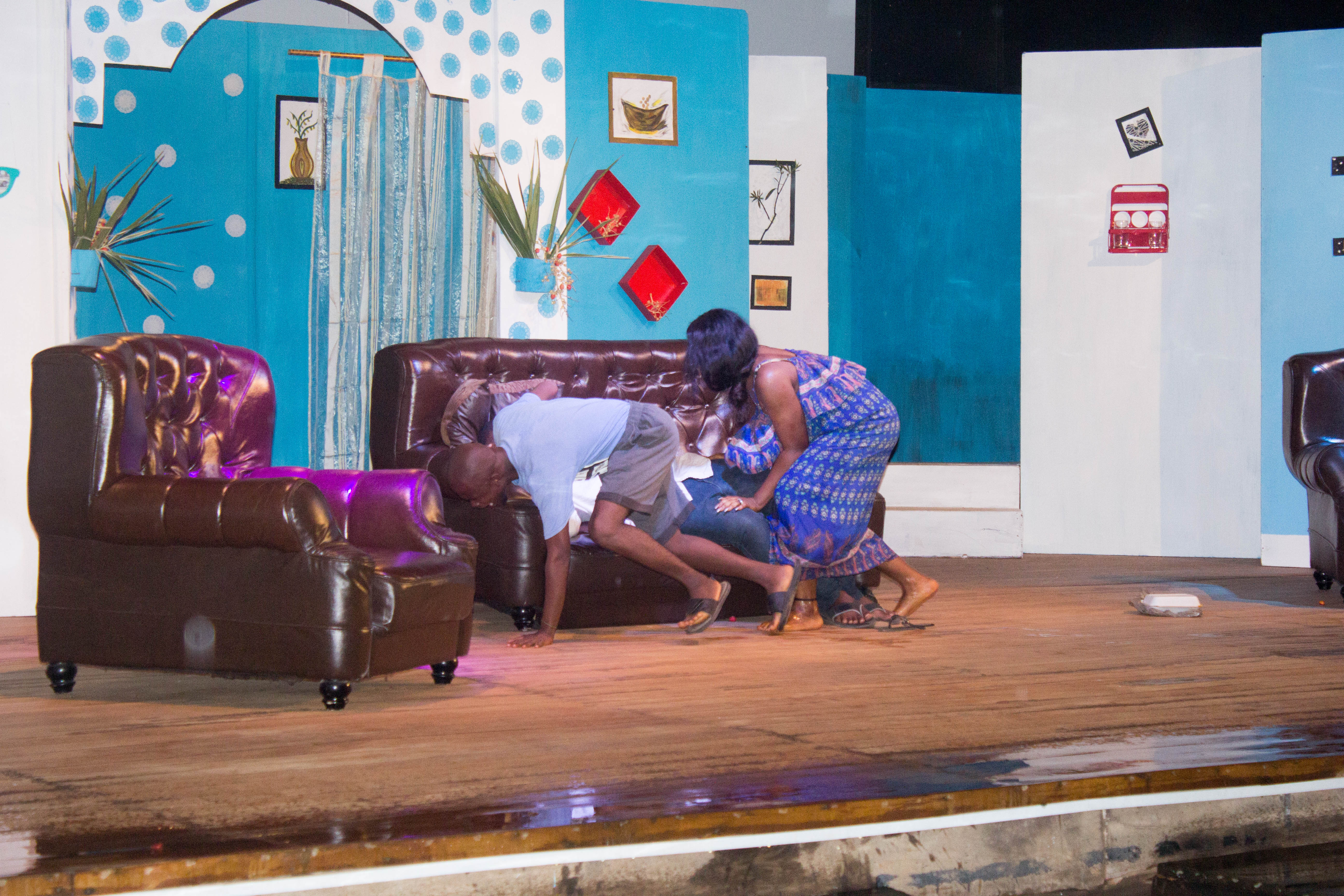 A play by Anita Oduro titled "Kiss Me Goodbye". The play was staged at ETS Drama Studio, University of Ghana.